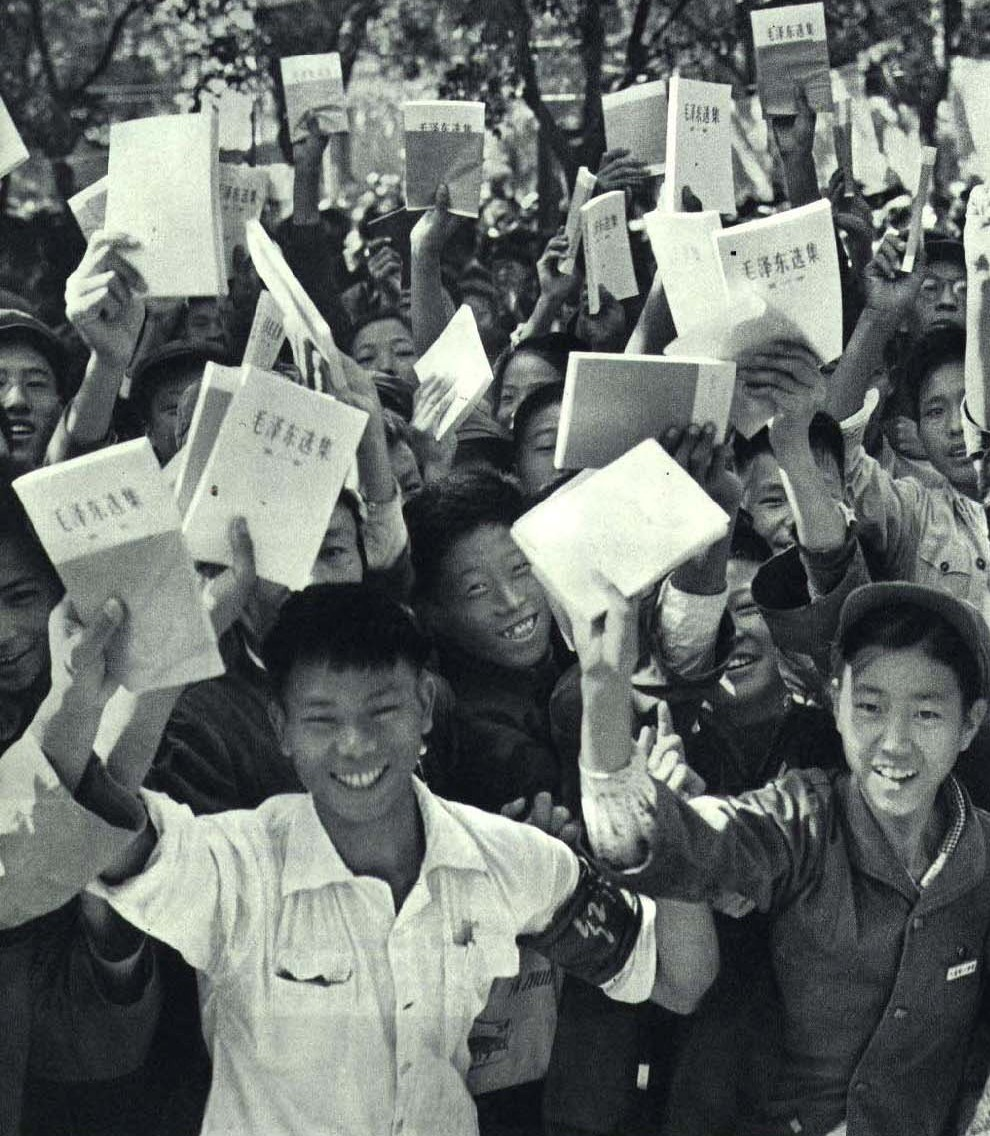 1967-02 1966年民众学习毛泽东选集